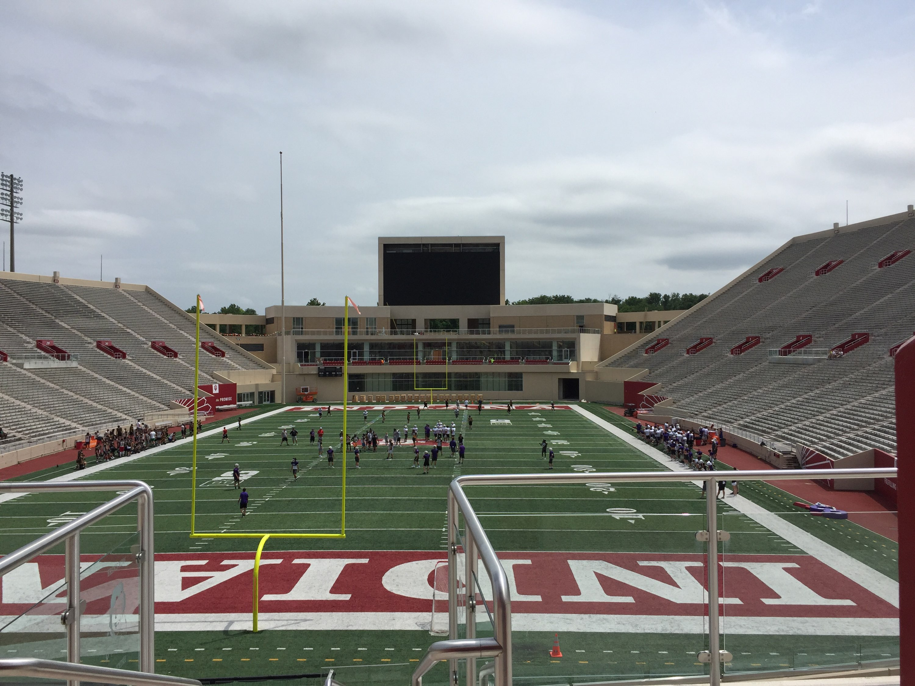 Memorial Stadium - South End Zone - June 2018